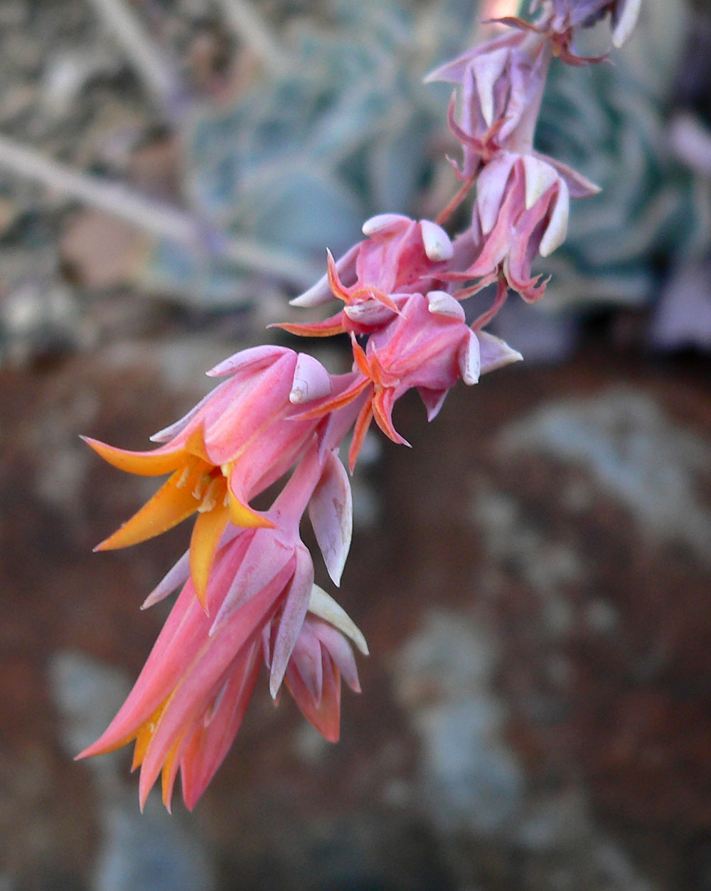 Echeveria runyonii at the University of California Botanical Garden, Berkeley, California